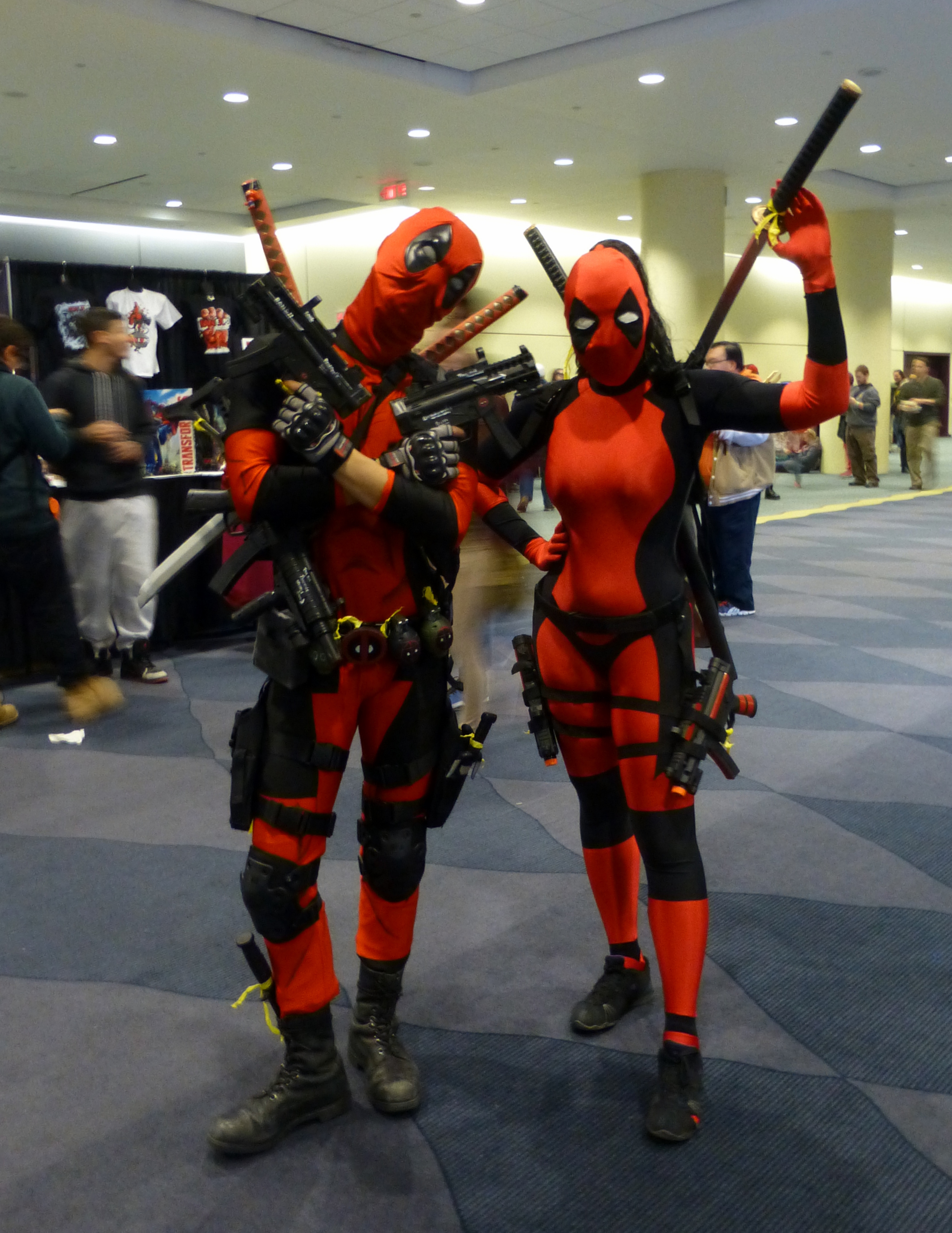 Male and Female Deadpool Toronto Comicon 2015